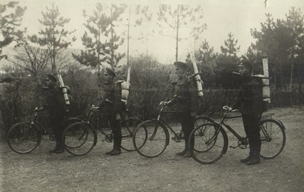 Bulgaria